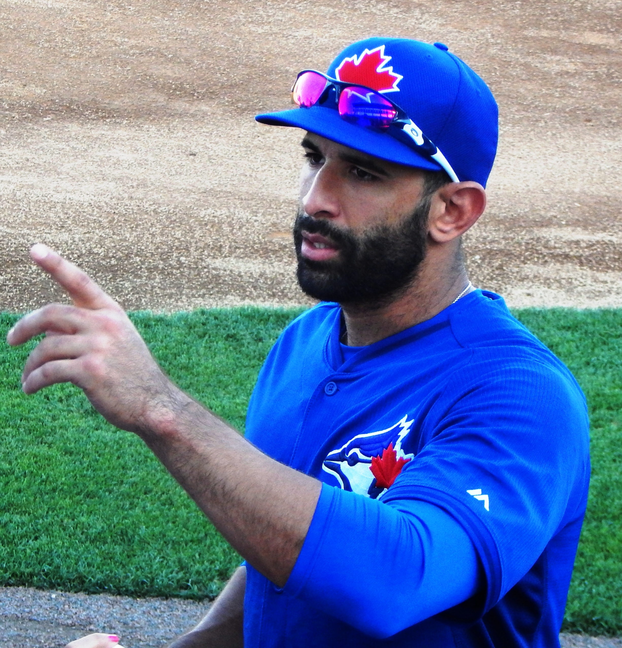 Jose Bautista at a Spring Training Game.